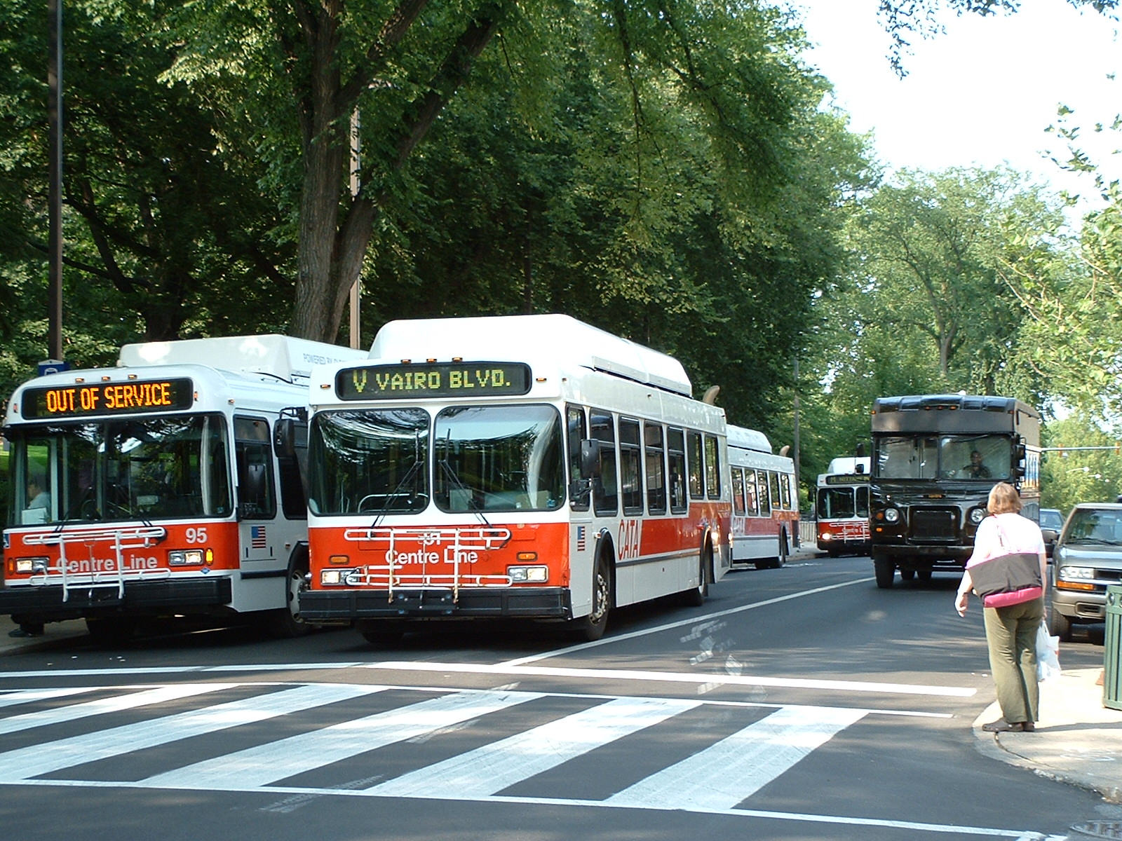 Image of several Centre Area Transportation Authority buses as seen from College Av., at Penn State University, University Park, Pennsylvania.